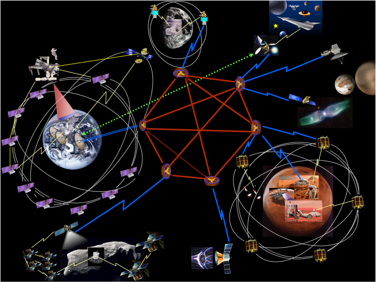 The Disruption Tolerant Network protocols will enable the Solar System Internet, allowing data to be stored in nodes until transmission is successful.